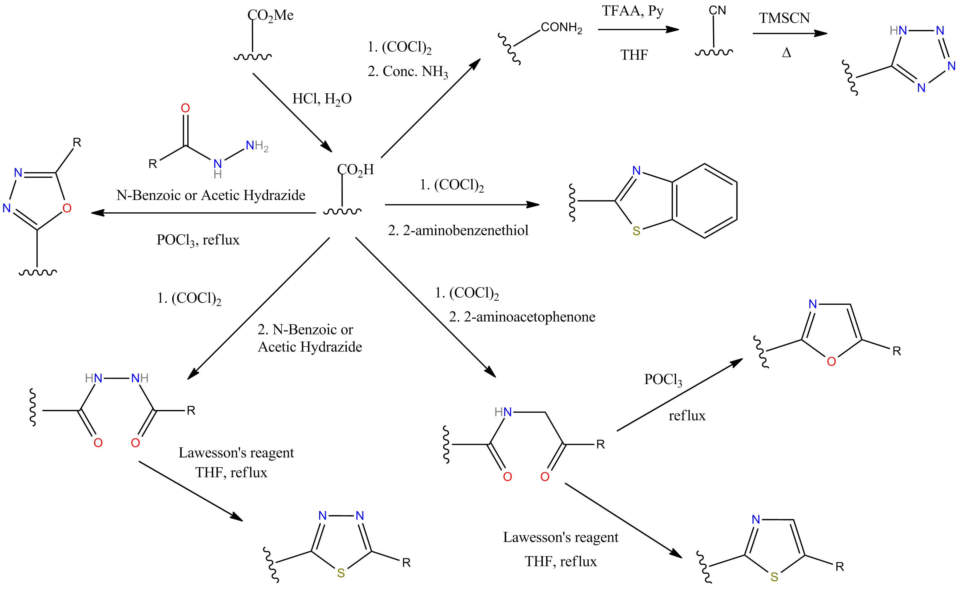 Schematic for making aromatic heterocycles